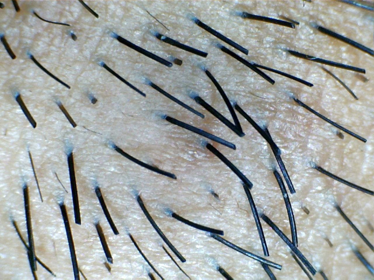 Beard hair.